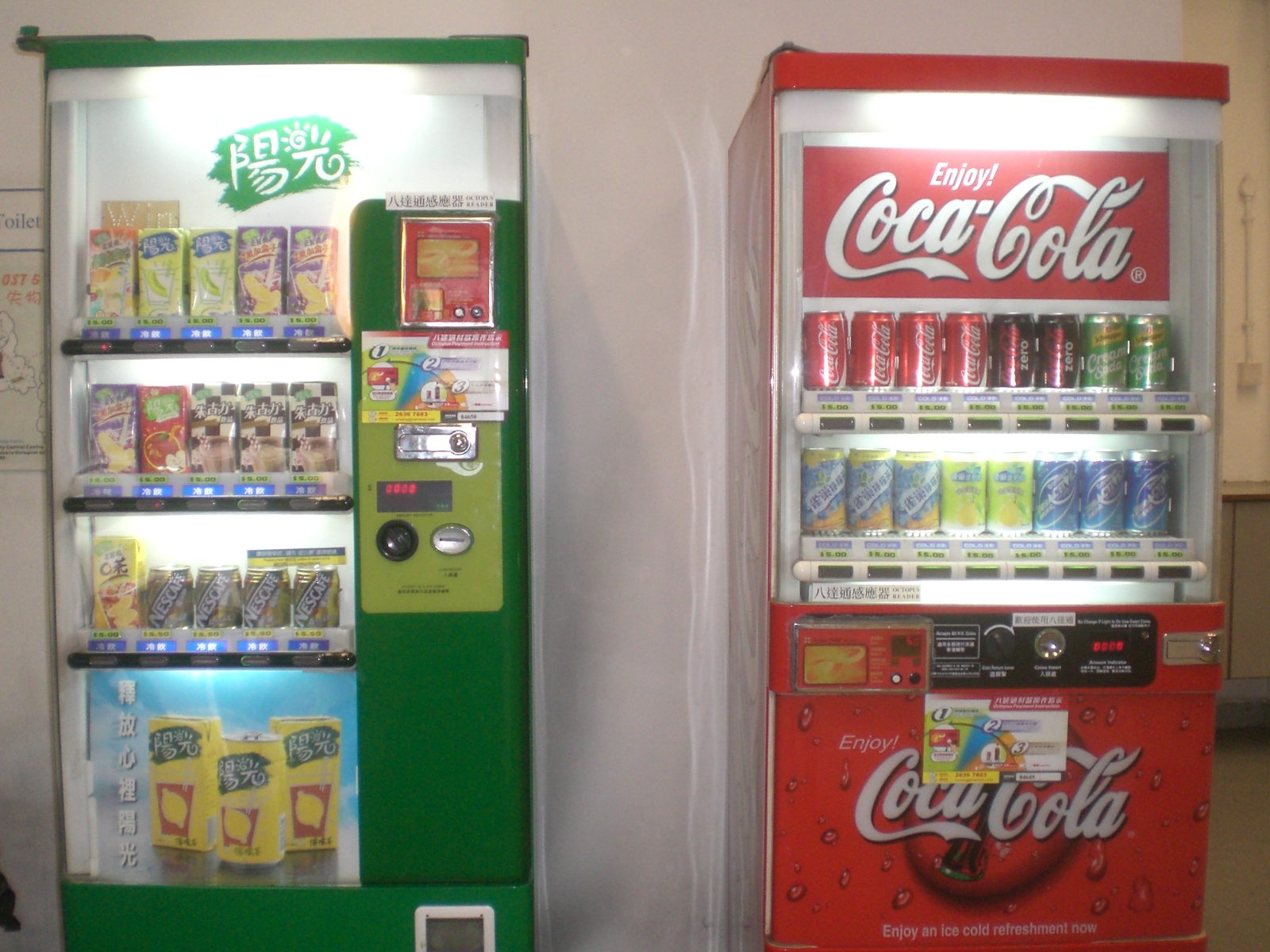 香港大學zh:太古樓zh:方樹泉文娛中心